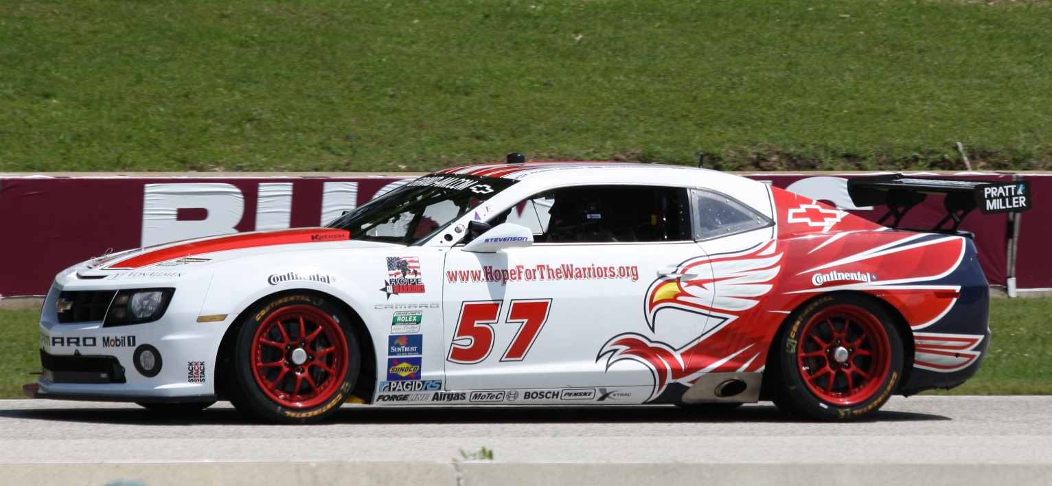 The GT sports car of Ronnie Bermer, Robin Liddell and Jan Magnussen racing at an event at Road America.